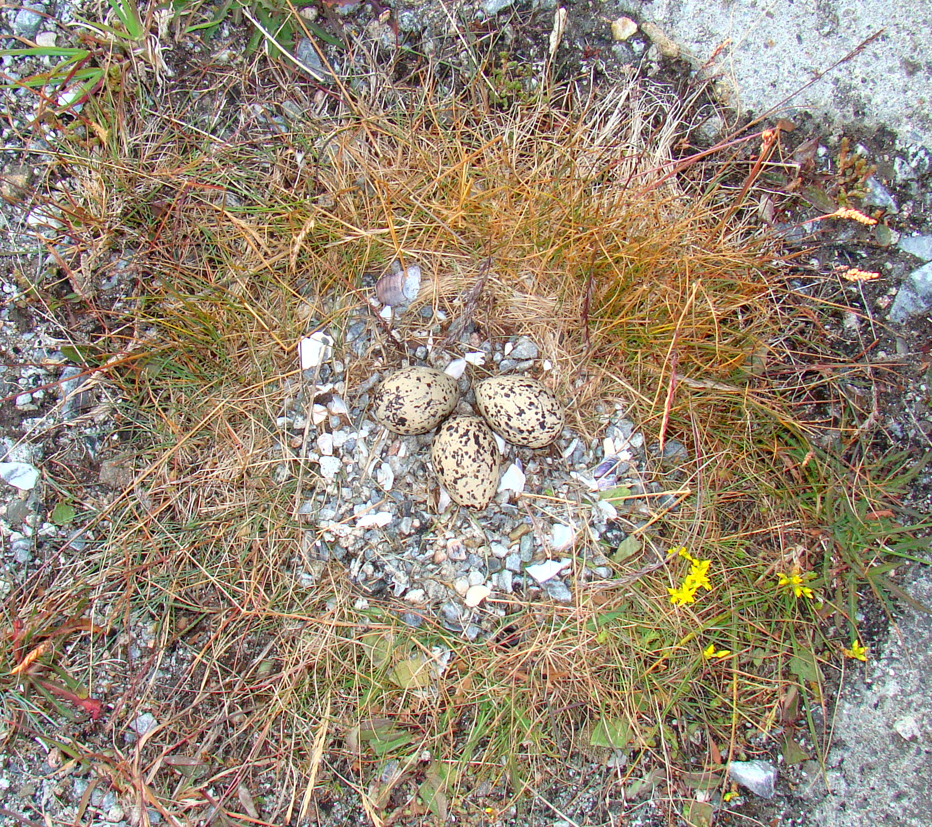 A nest of the Eurasian Oystercatcher, Haematopus ostralegus, photographed near Brønnøysund in Northern Norway.